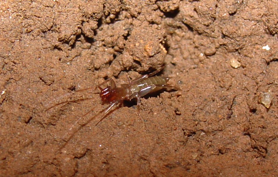 Rowlandius ubajara sp.nov., female from Ubajara, Ceará, Brazil.